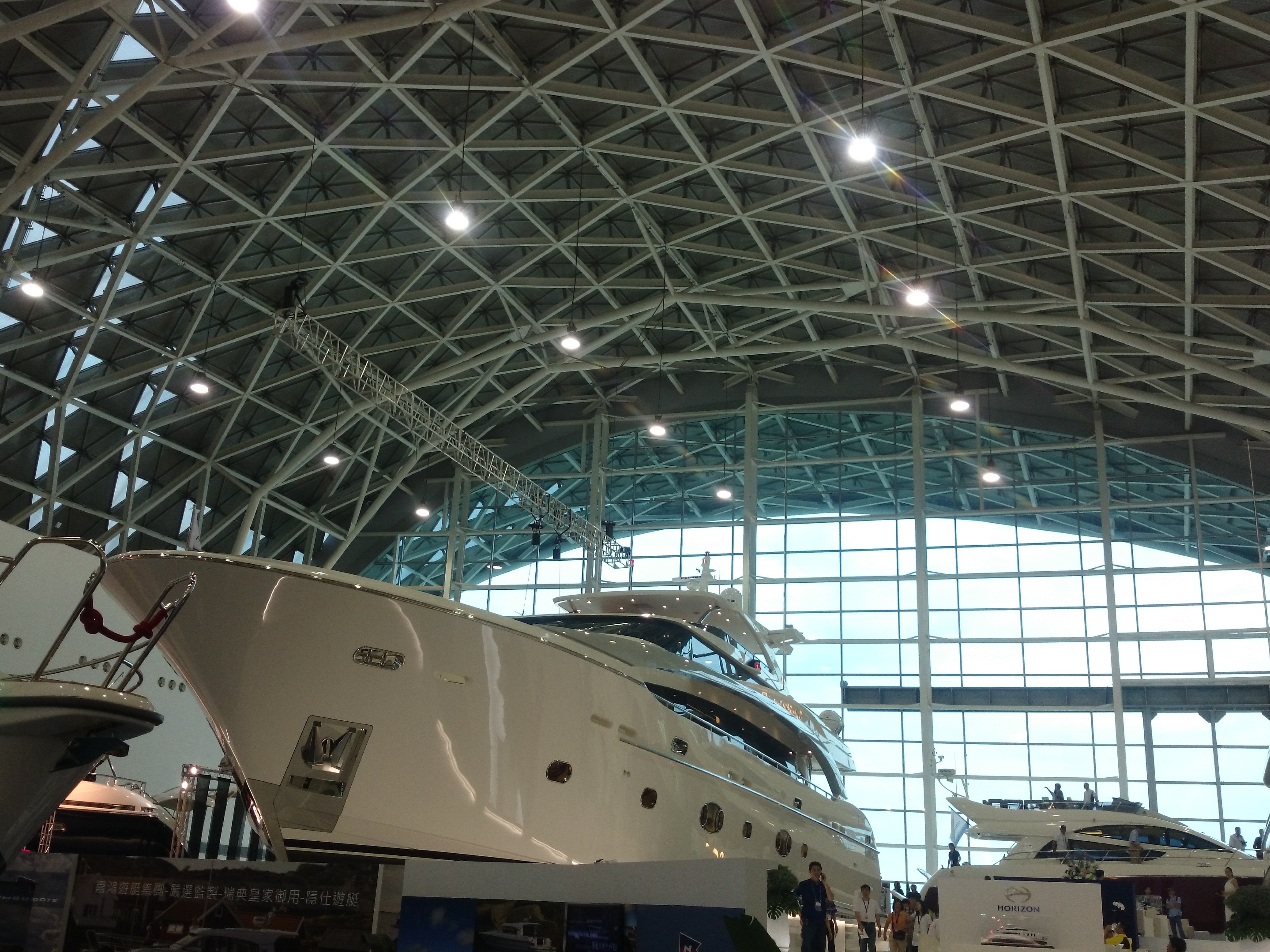 Taiwan Int'l Boat Show 2014 at Kaohsiung Exhibition Center.